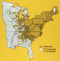 US distribution of Japanese Beetle, (This map is not entirely accurate. Infestation is established much farther west at least to the Oklahoma line.)